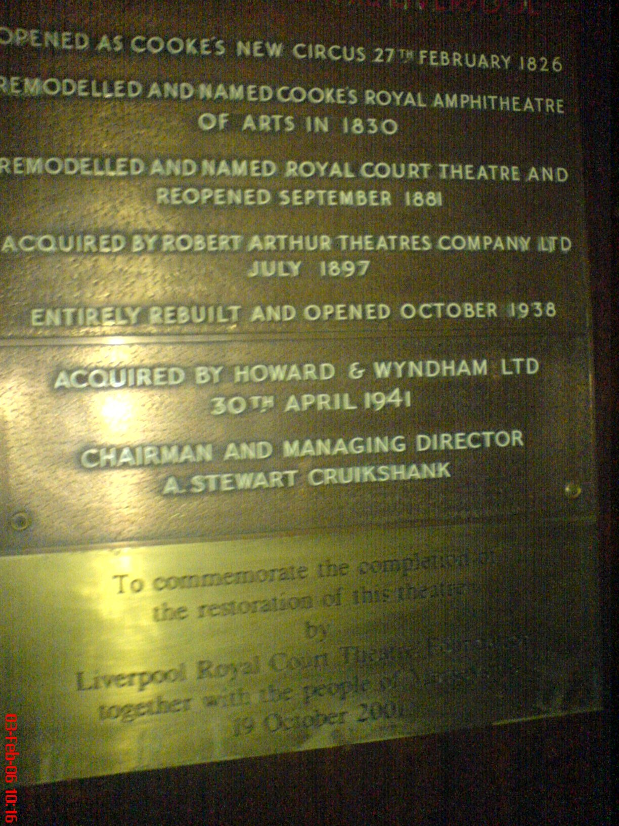 Plaque currently on display in the foyer at the Royal Court Theatre, Liverpool, showing the history of the theatre.